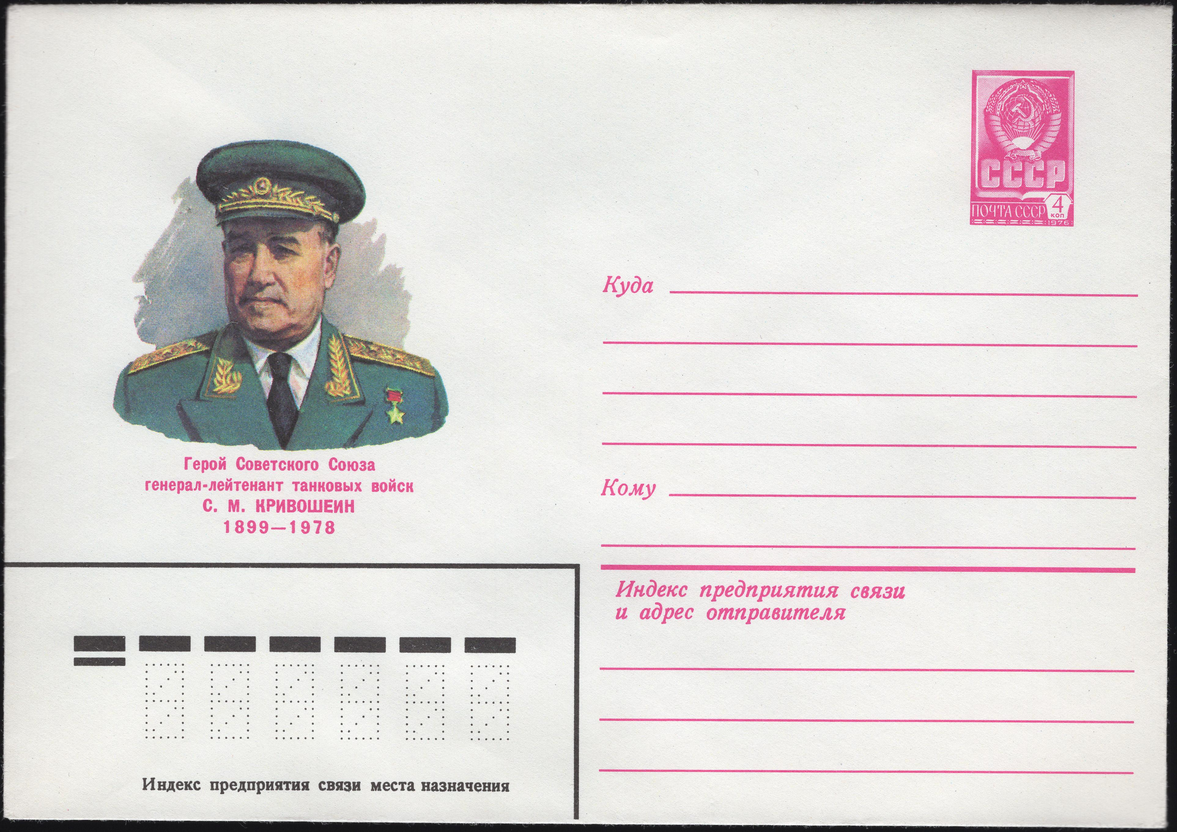 Hero of the Soviet Union Lieutenant general of armoured warfare Semyon Krivoshein. 1899-1978. Series: Heroes of the Soviet Union. Artist Ignatyev N.